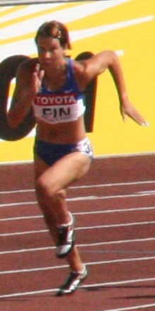 World Athletics Championships 2007 in Osaka - Scene from first heat of the women*s 4*100 relay (1st round)